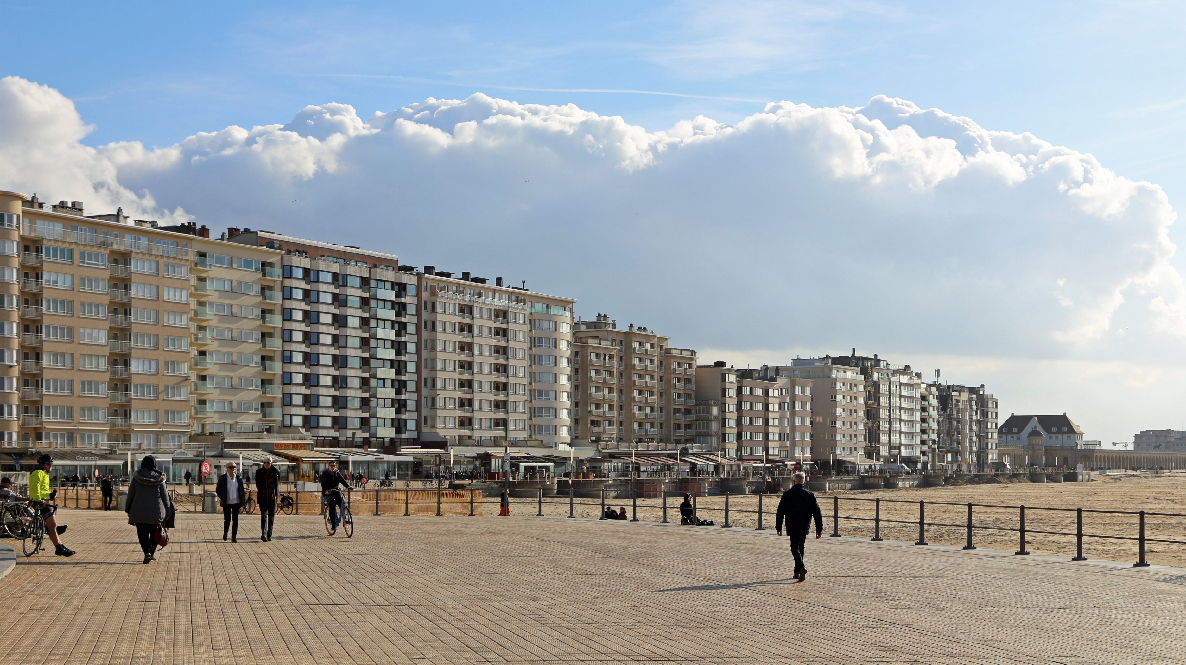 Ostend (Belgium): Albert I-Promenade and beach